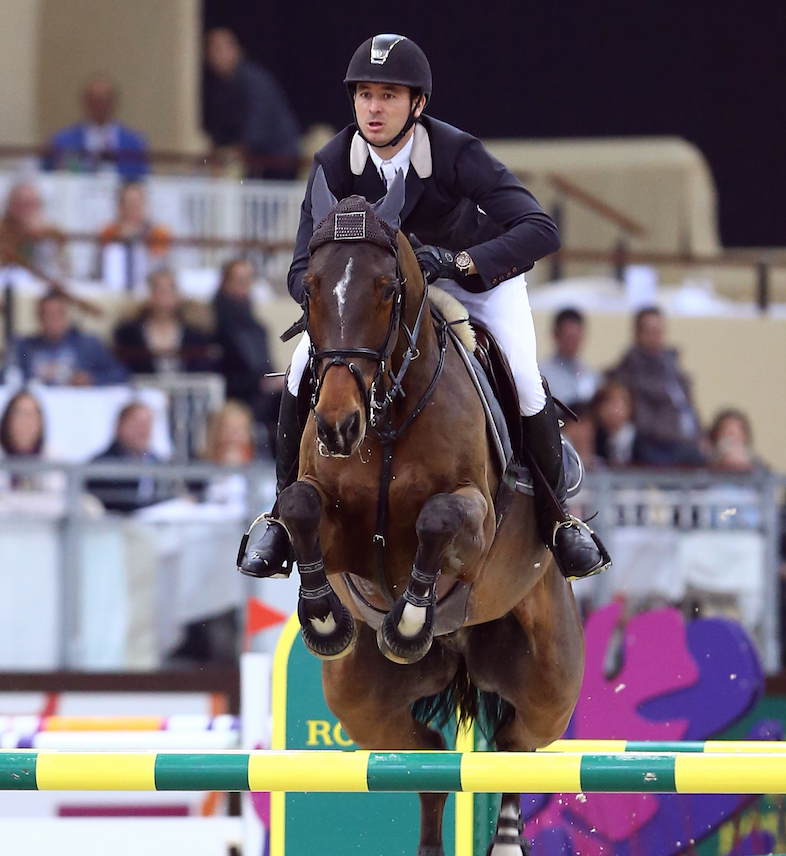 Steve Guerdat and Nino des Buissonnets, winner of the Major of Geneva in 2013